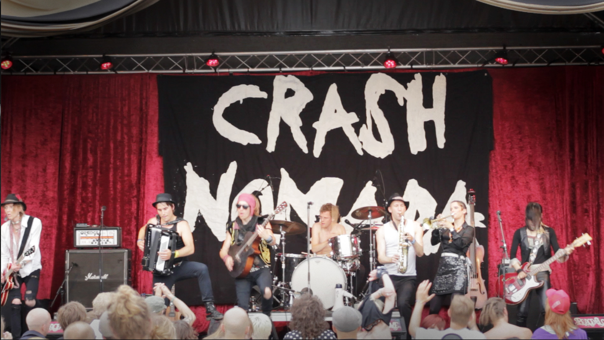 Crash Nomada at the Peace and Love Festival 2011, Sweden